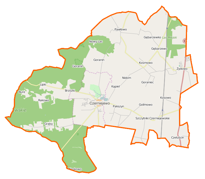 Map of Gmina Czerniejewo, Poland This map of Czerniejewo (gmina) was created from OpenStreetMap project data, collected by the community. This map may be incomplete, and may contain errors. Don't rely solely on it for navigation. Border coordinates52.502417.3756←↕→17.614552.3748